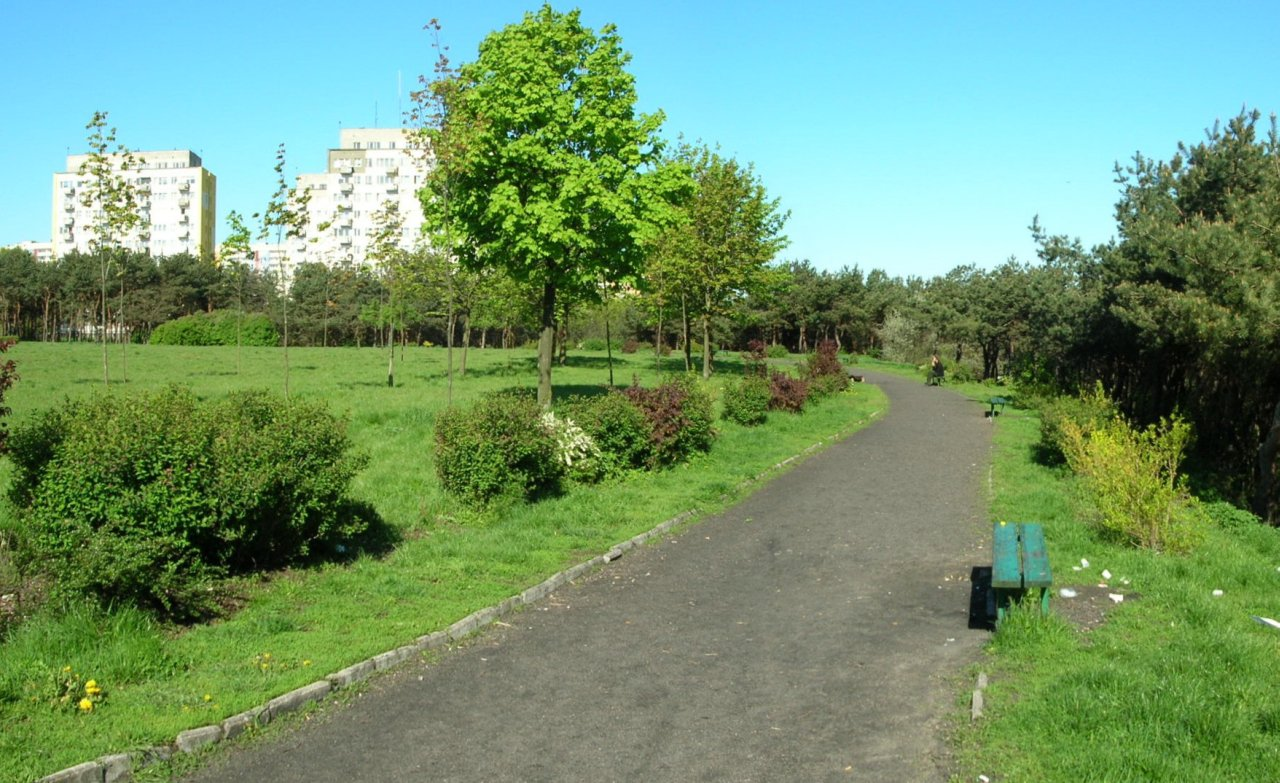 Ścieżka spacerowa na Kapuściskach w Bydgoszczy